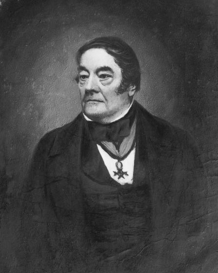 Photograph: Painting of Jacques Viger (ca.1850), copied for J. Lovell in 1891, by Wm. Notman & Son. Silver salts on glass, Gelatin dry plate process, 17 x 12 cm